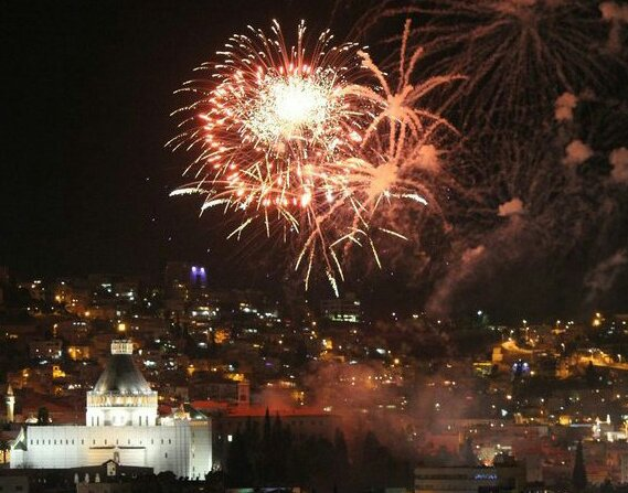 Christmas Eve FireWorks in The City of Nazareth